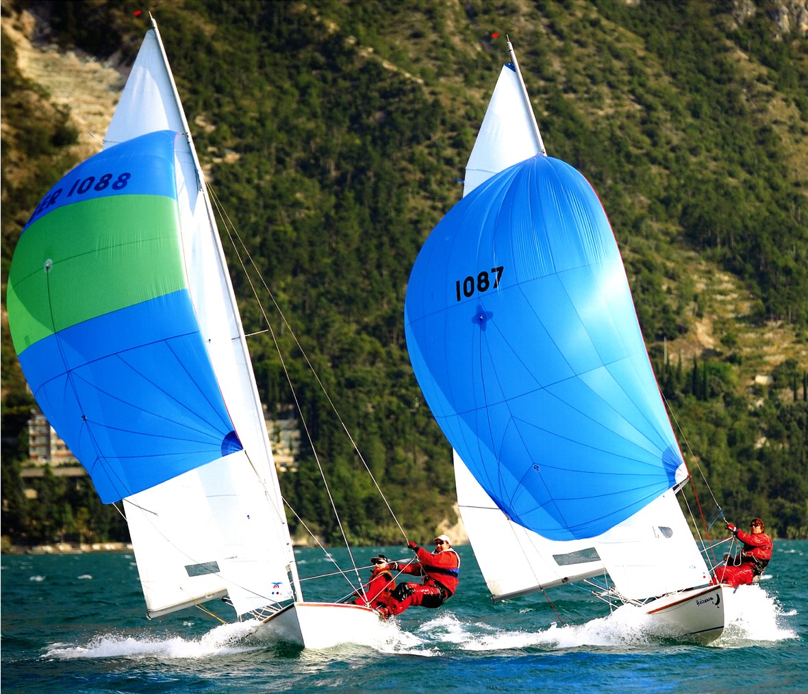 Tempest on reach (left old size spinnaker richt new size)